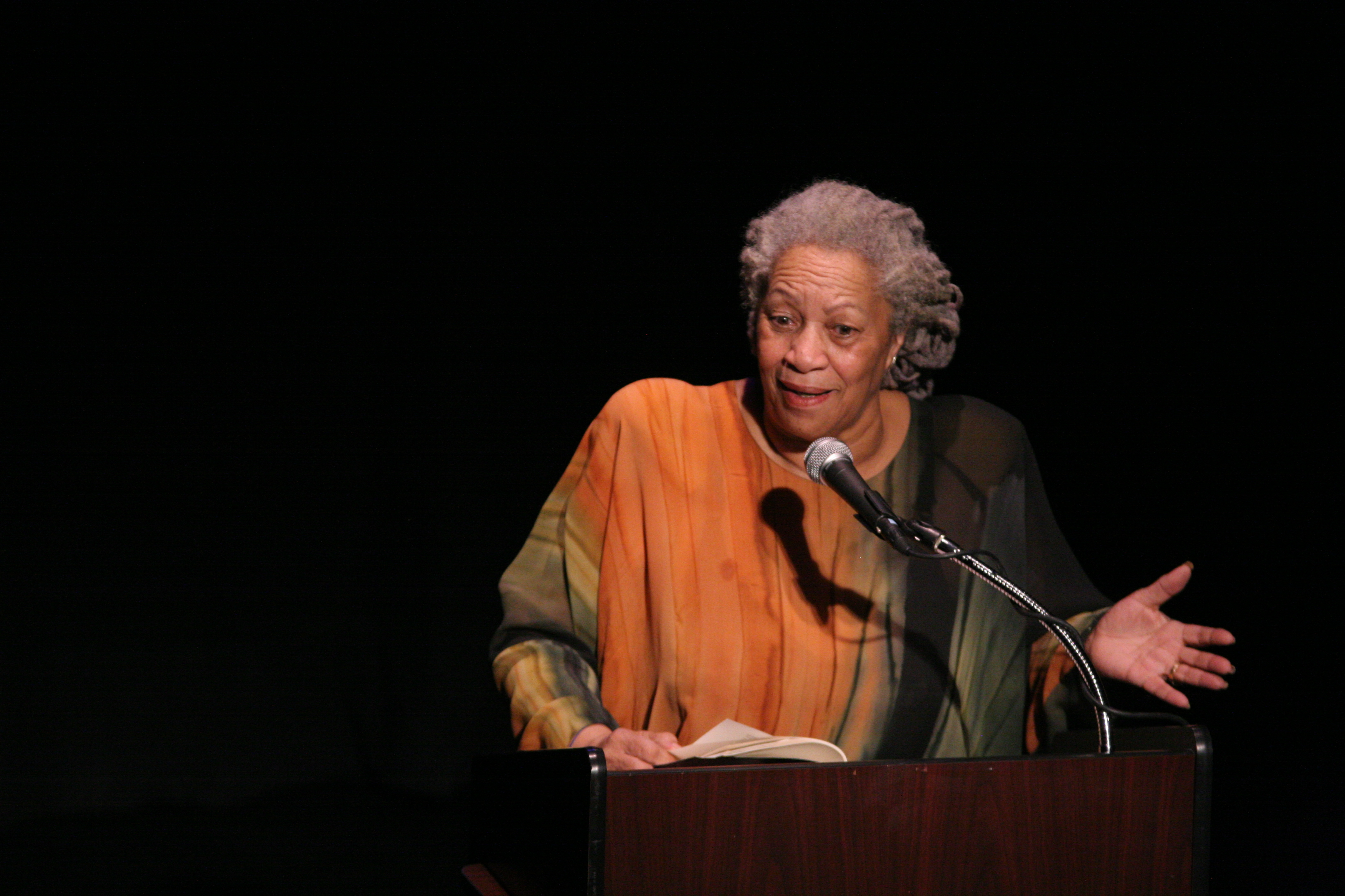 Toni Morrison speaking at "A Tribute to Chinua Achebe - 50 Years Anniversary of 'Things Fall Apart'". The Town Hall, New York City, February 26th 2008